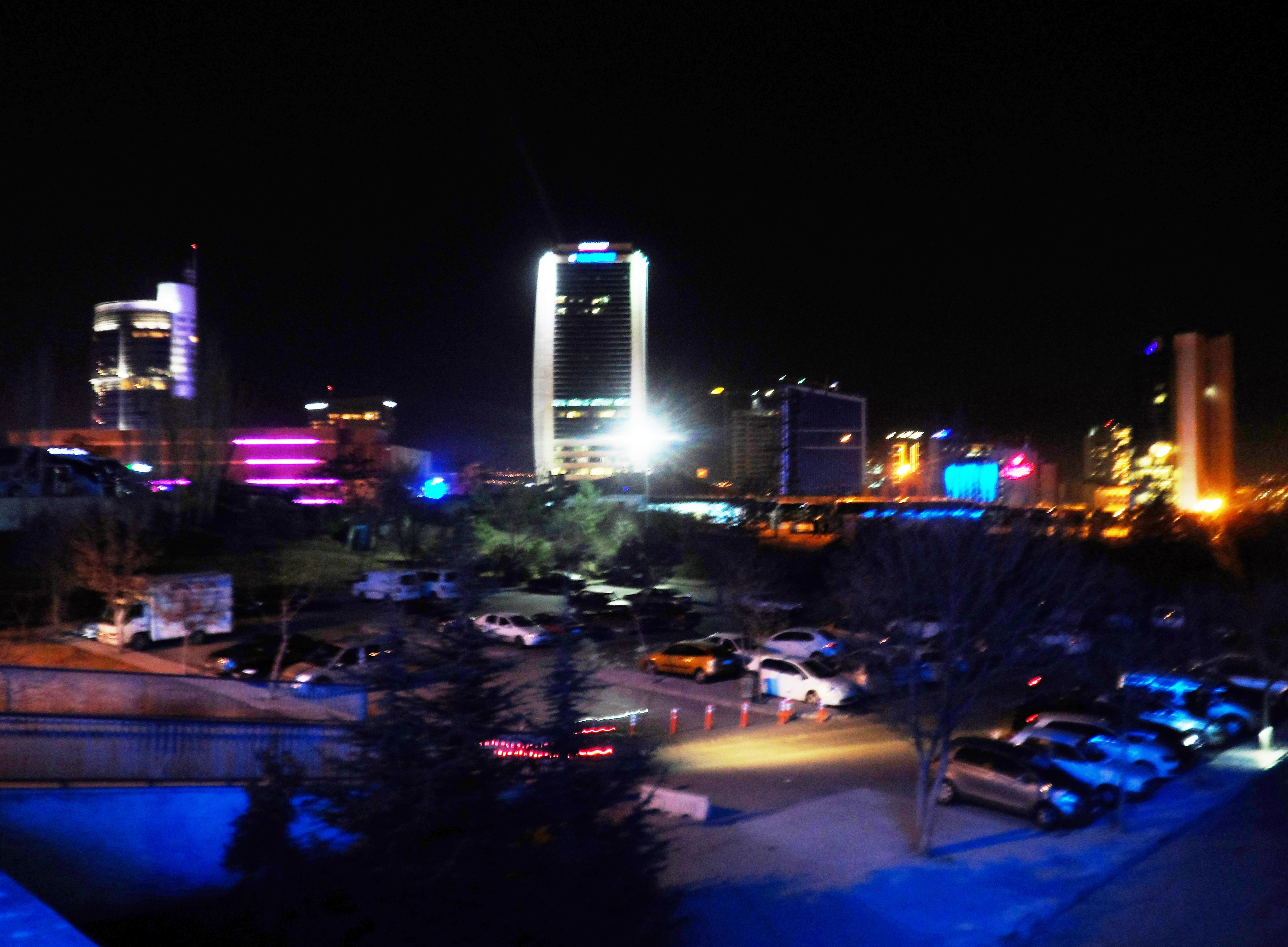 Yenimahalle, Ankara